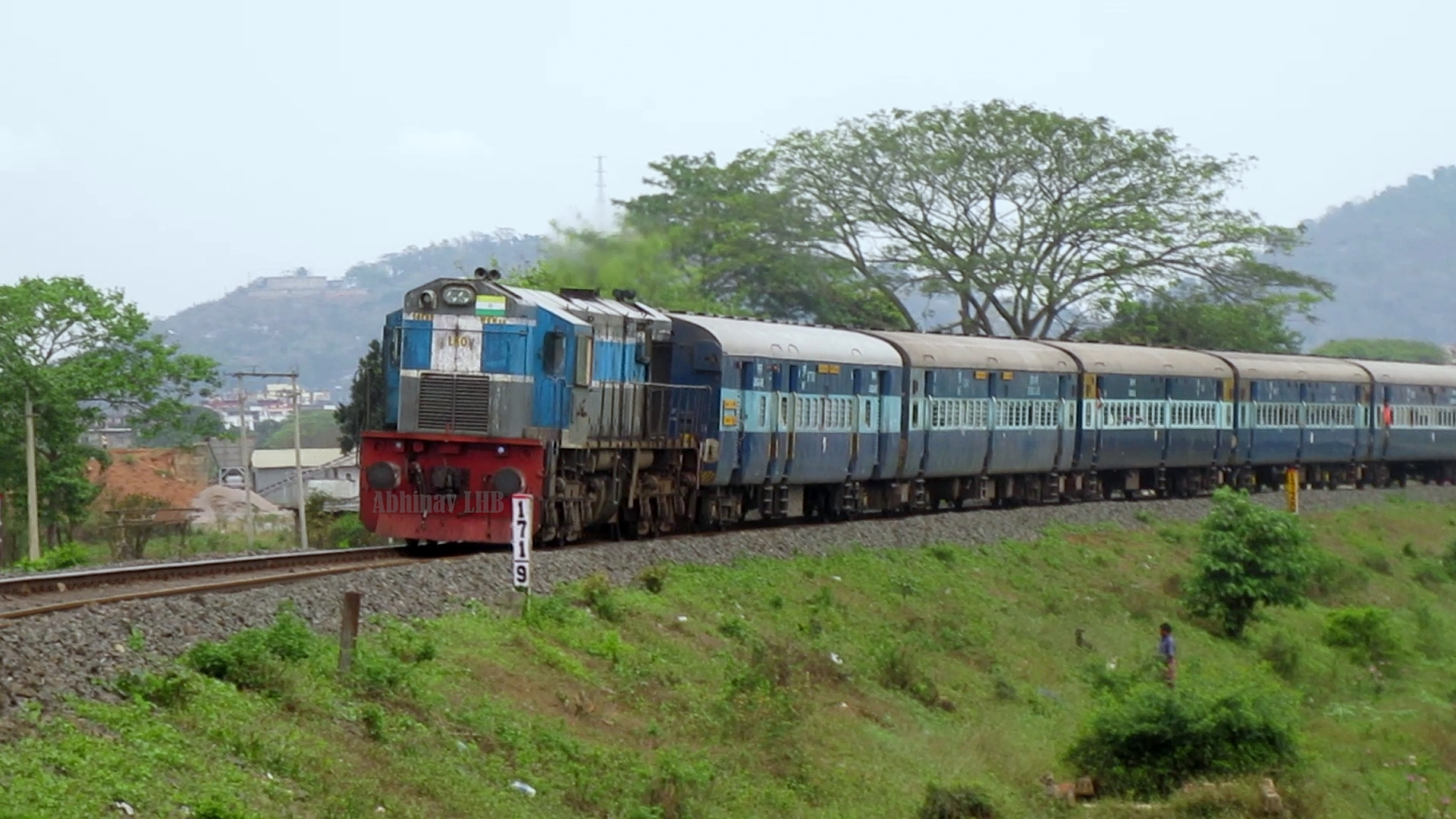 LKO ALCo WDM3B #14155 hauling 15668 Kamakhya - Gandhidham Express; enjoy the video: The loco exhibits a classic ALCo chugging !!